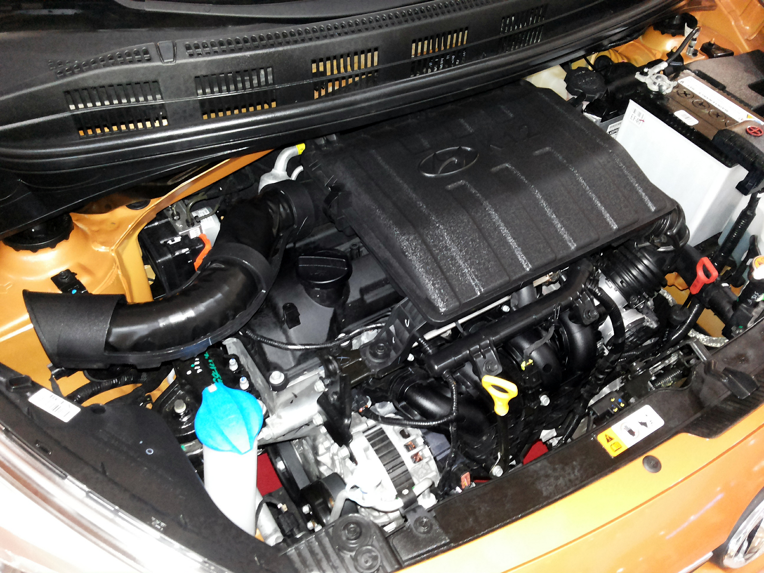 2014 Hyundai Grand i10 1.2 Automatic (Philippine model). Taken at Robinsons Galleria, Quezon City, Philippines.